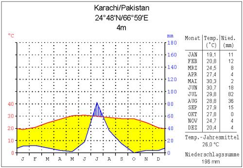 Climate diagram of Karachi, Pakistan